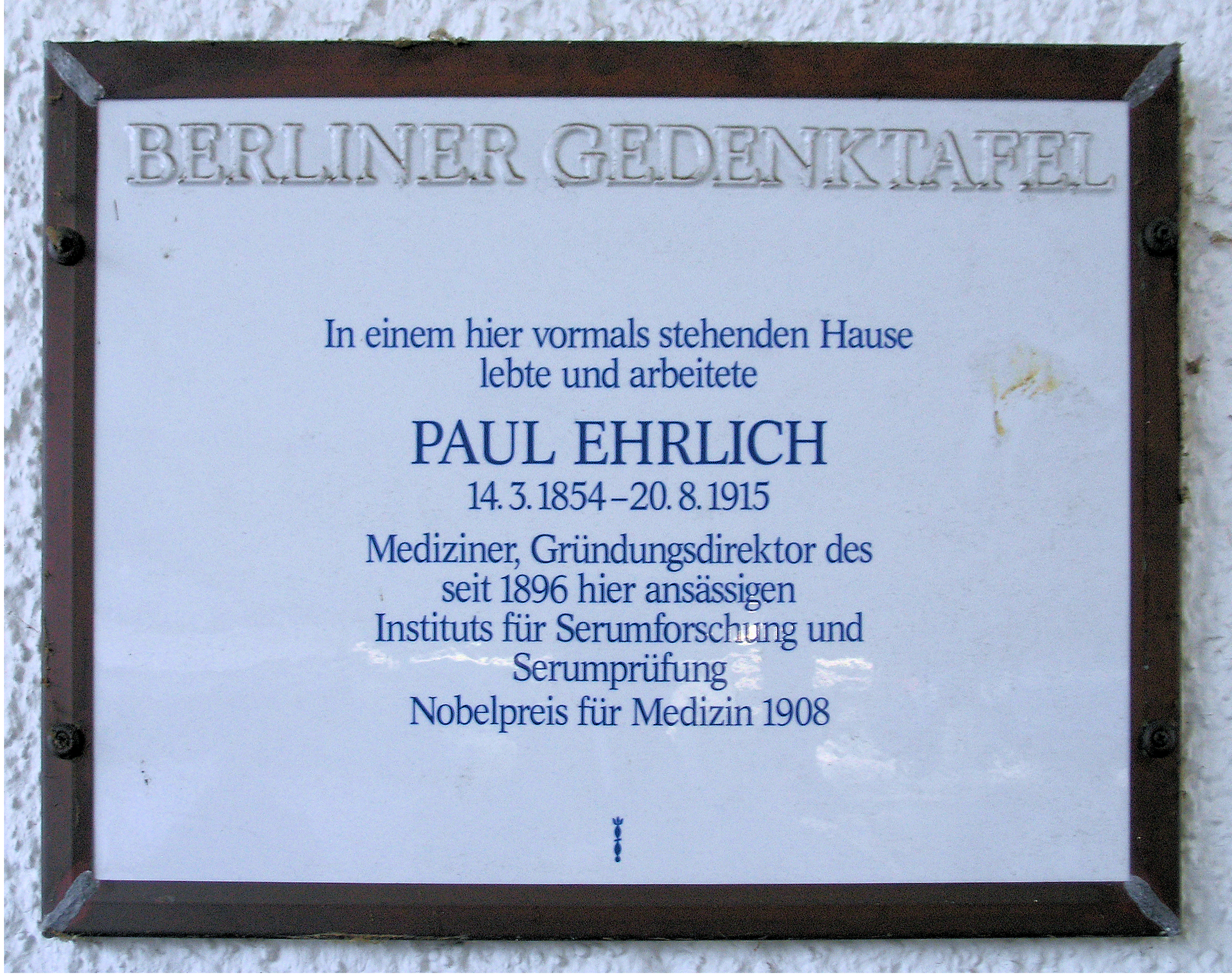 Berlin memorial plaque, Paul Ehrlich, Bergstraße 96, Berlin-Steglitz, Germany Koordinate:52°27′29″N 13°19′37″E / 52.45806°N 13.32694°E